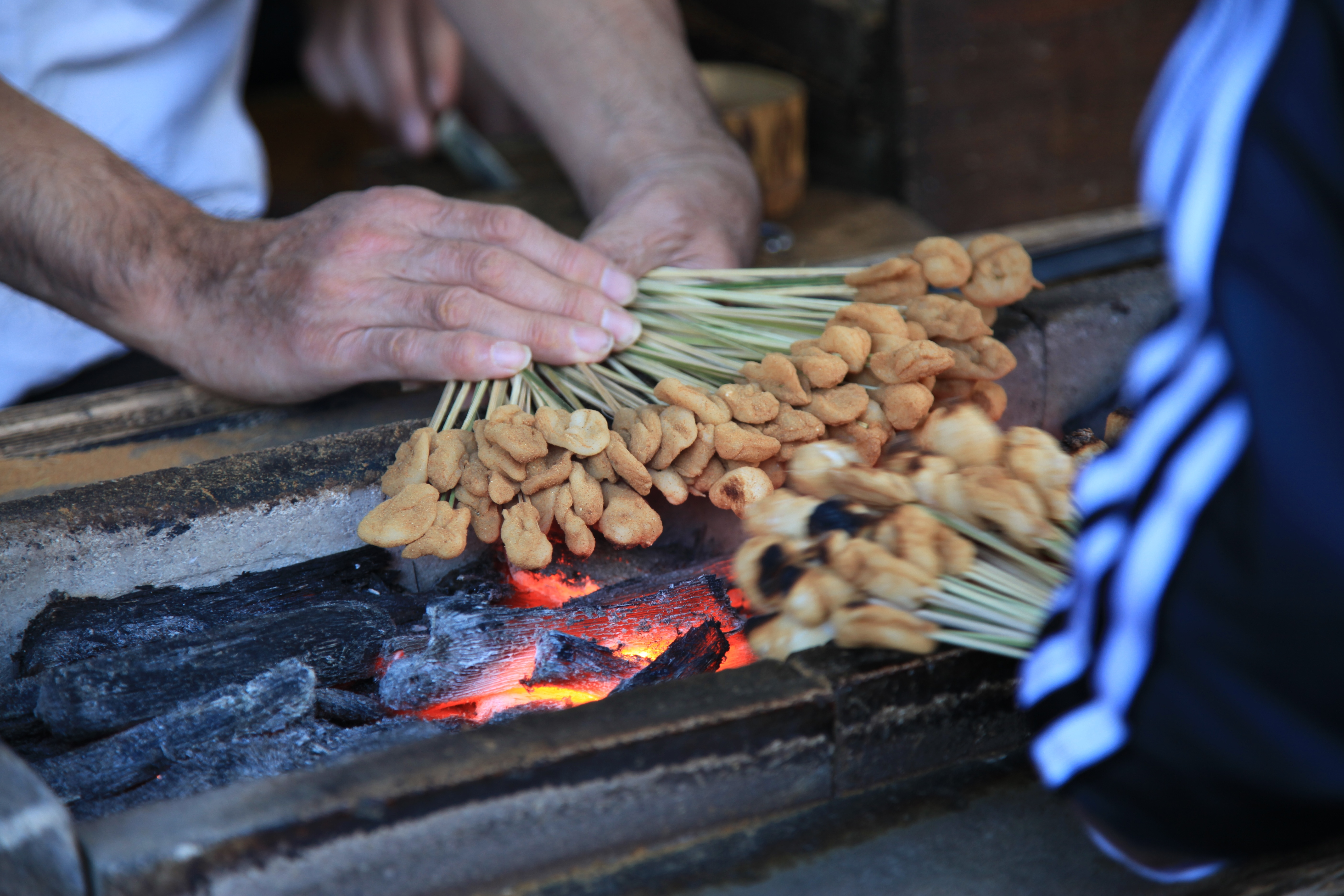 Front of the gate of the shrine Imamiya,[Kazriya] AburiMochi